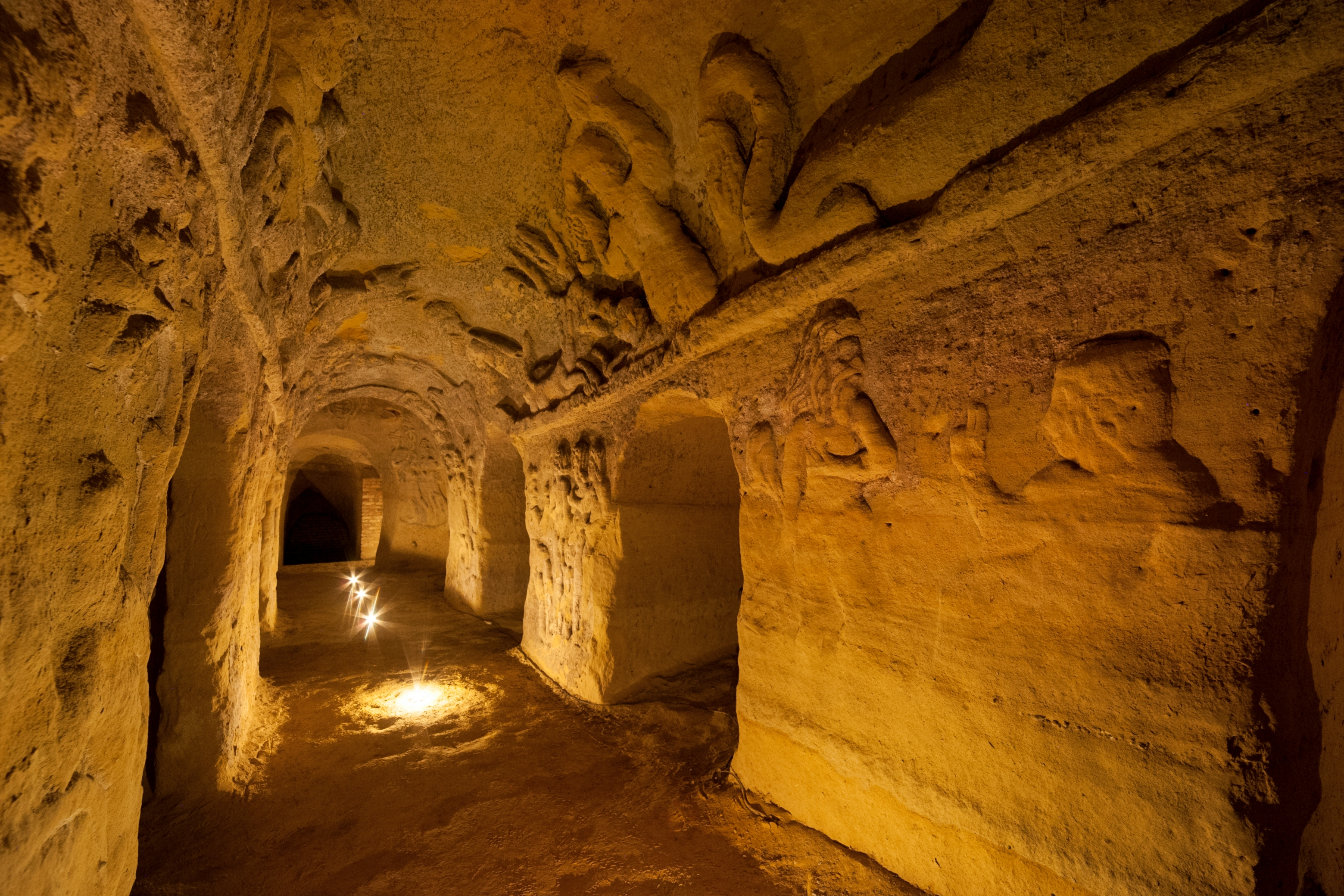 Caves Palazzo Campana 6